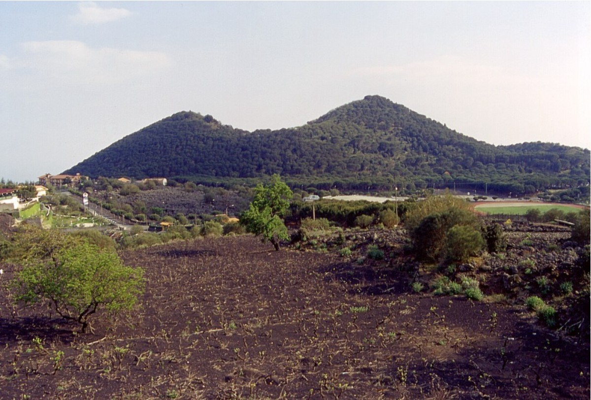 Monti Rossi craters from North-side